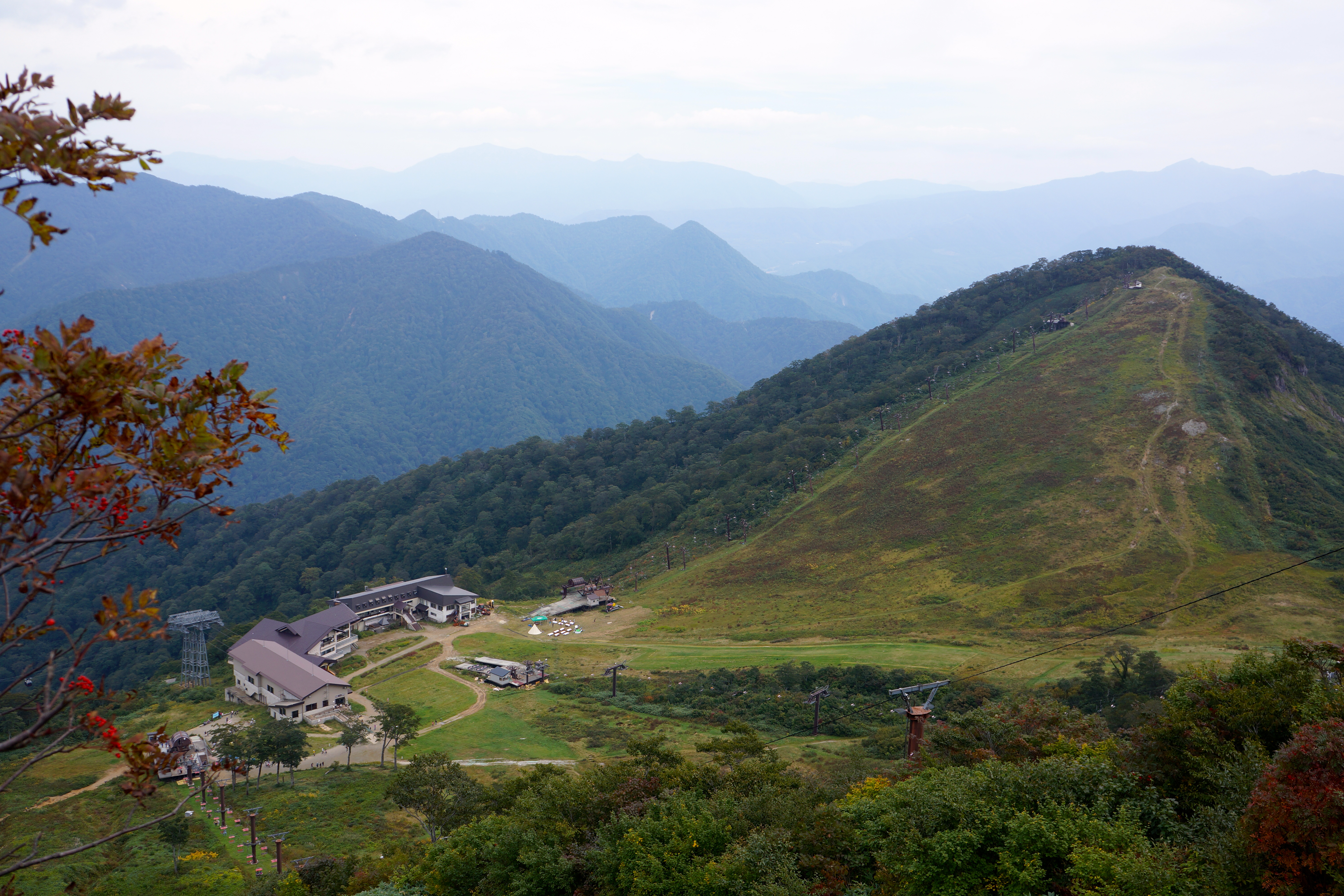 View of Tenjindaira in Mount Tanigawa in Gumna Prefecture.